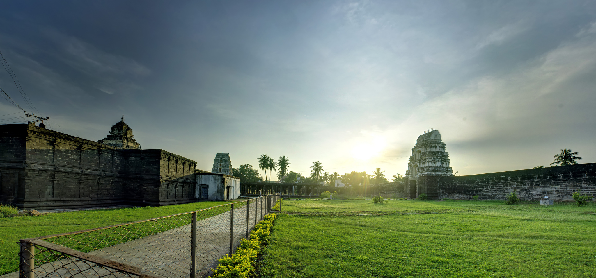 Draksharama temple in Draksharamam is one of the five powerful Shiva temples known as Pancharamas